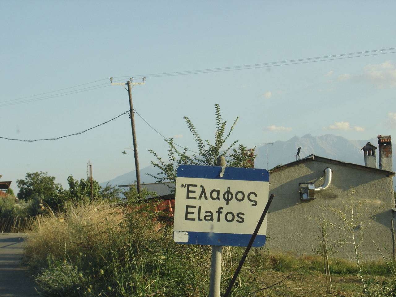 Road plate showing the entry of Elafos.